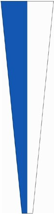 Flagship Pennant of Riga.